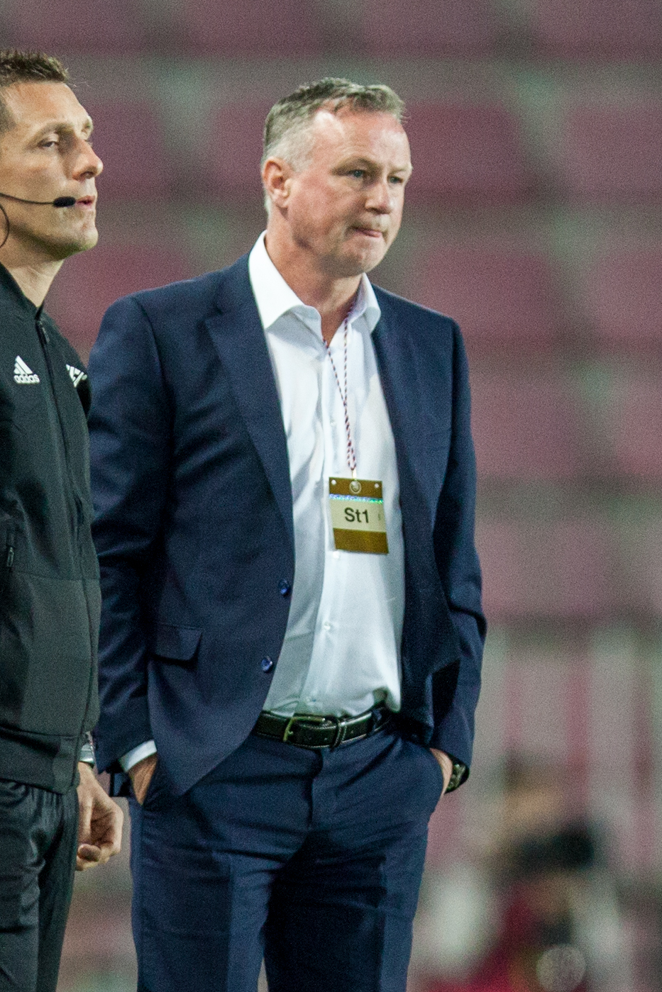 Michael O'Neill in an international friendly match between Czech Republic and Northern Ireland (2:3), Stadion Letná (Prague) 2019-10-14 The making of this work was supported by Wikimedia Austria. For other files made with the support of Wikimedia Austria, please see the category Supported by Wikimedia Österreich. Personality rights warningAlthough this work is freely licensed or in the public domain, the person(s) shown may have rights that legally restrict certain re-uses unless those depicted consent to such uses. In these cases, a model release or other evidence of consent could protect you from infringement claims.